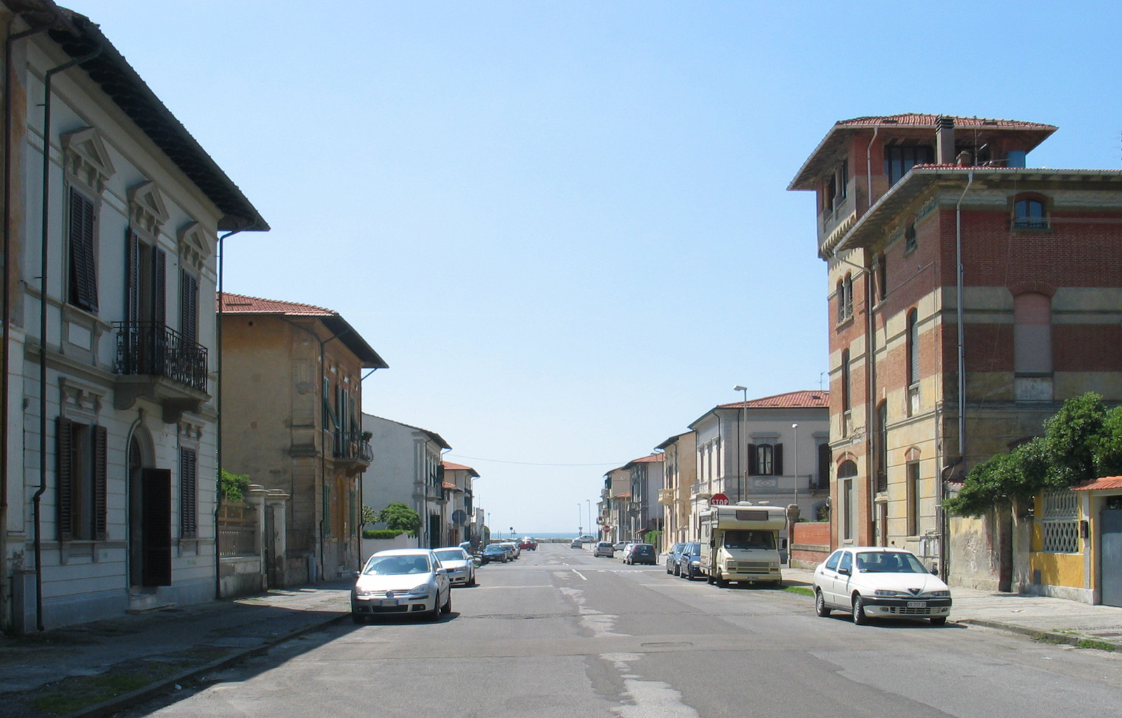 Street in the town of Marina di Pisa near the city of Pisa directly north of the seaside resort of Tirrenia.